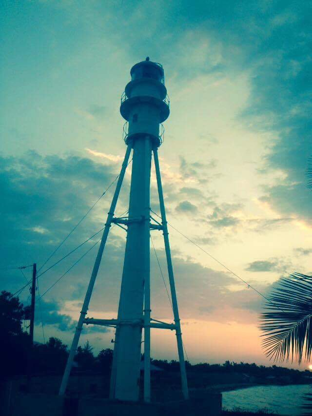 Lighthouse in Lamentin in Carrefour, Haiti.